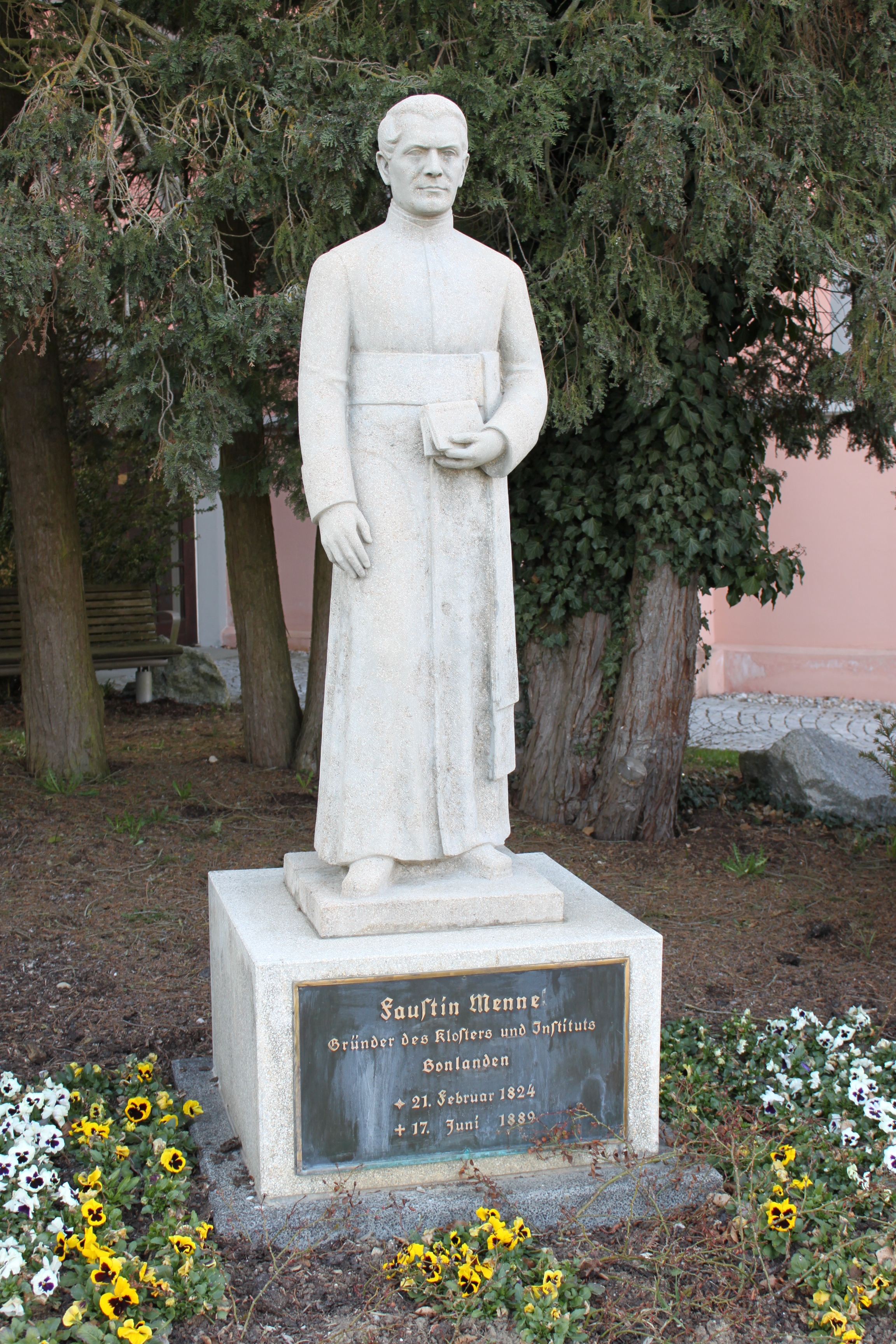 Statue of Faustin Mennel in front of the Abbey of Bonlanden, Germany